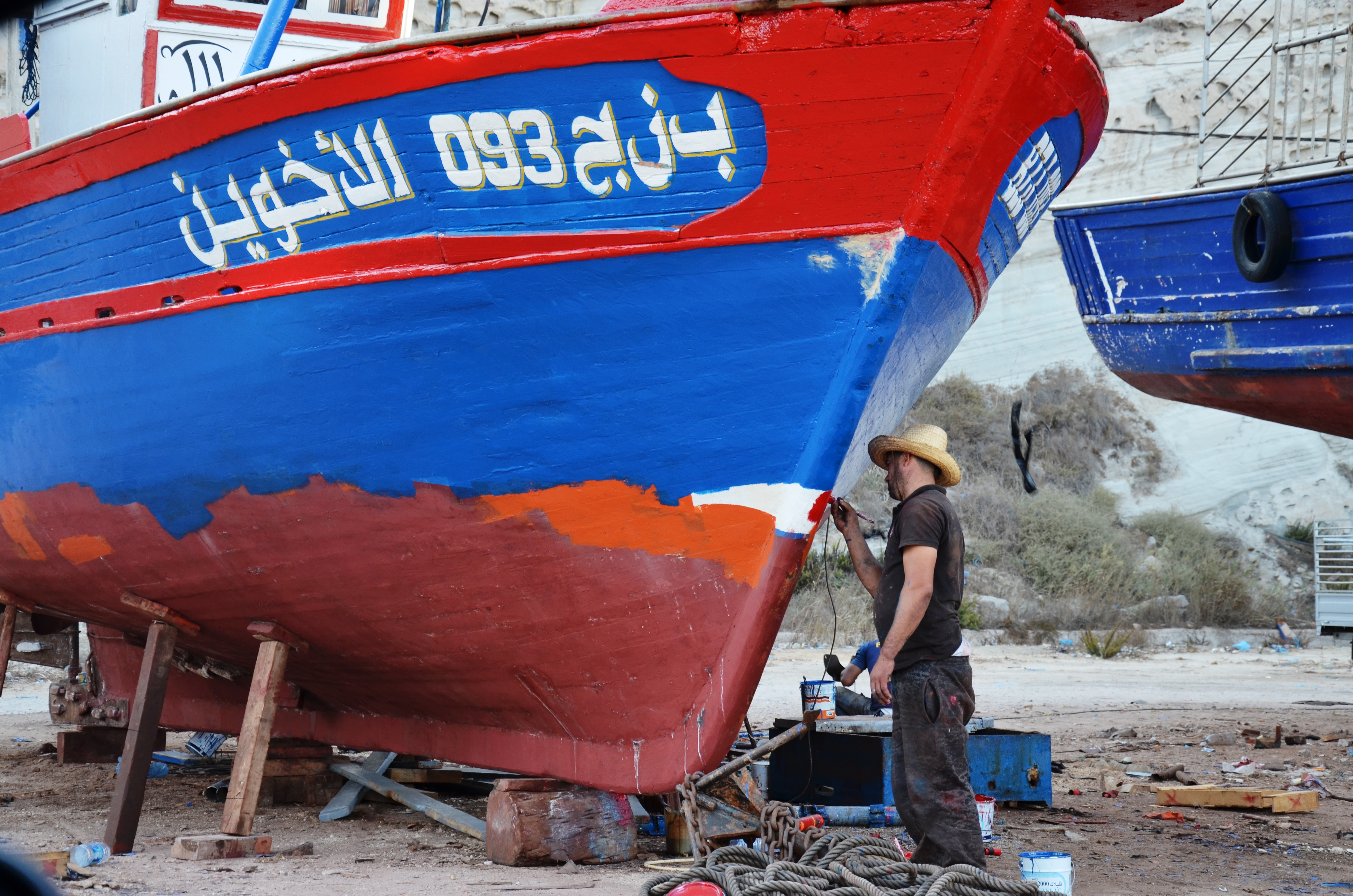 This is an image of "African people at work" from Algeria